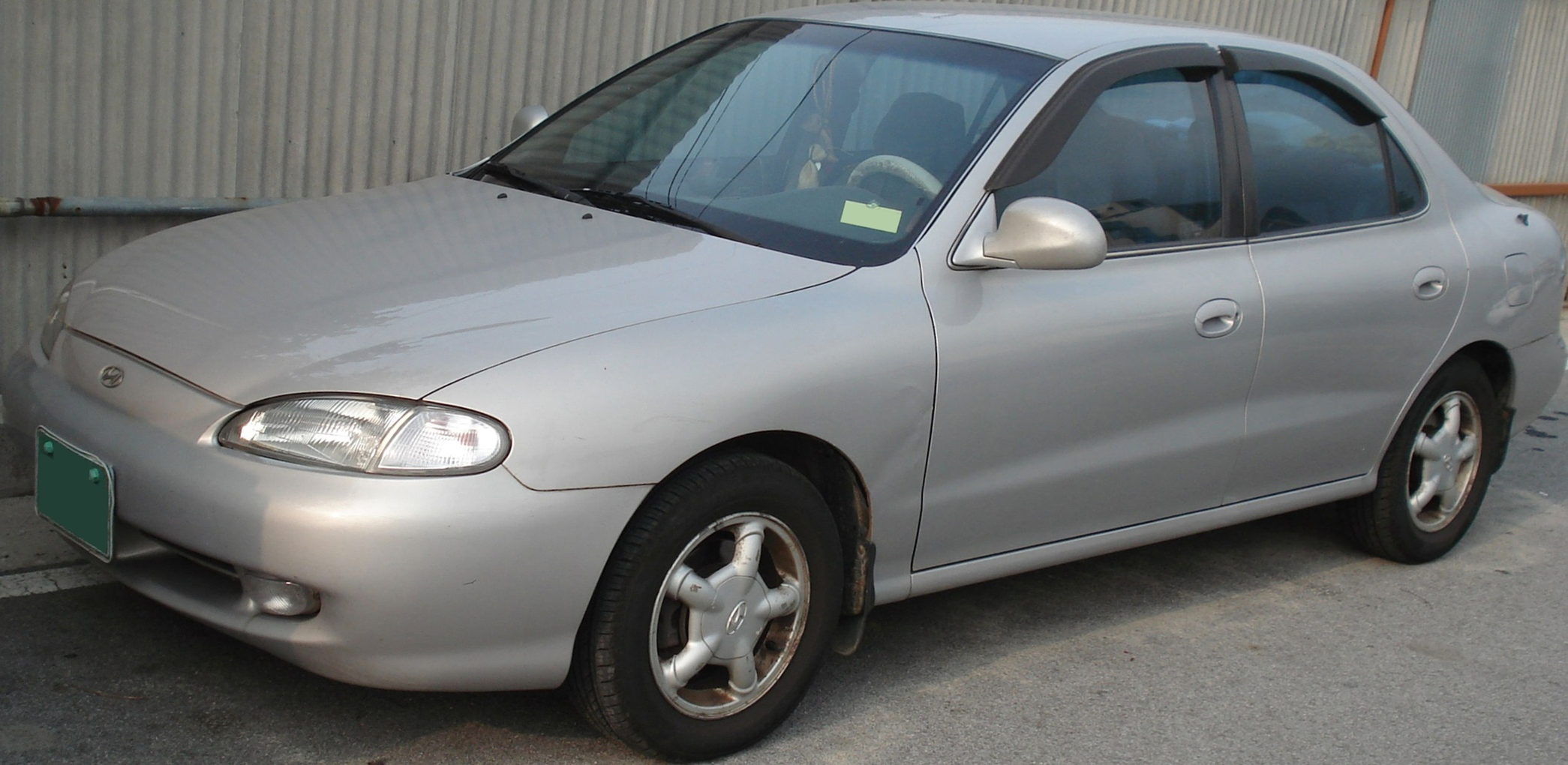 Hyundai Avante